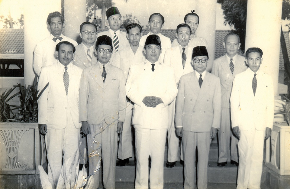 Natsir Cabinet ministers with President Sukarno and Vice President Mohammad Hatta.